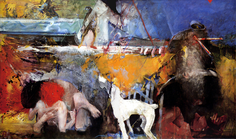 FourseasonsII, Brunner